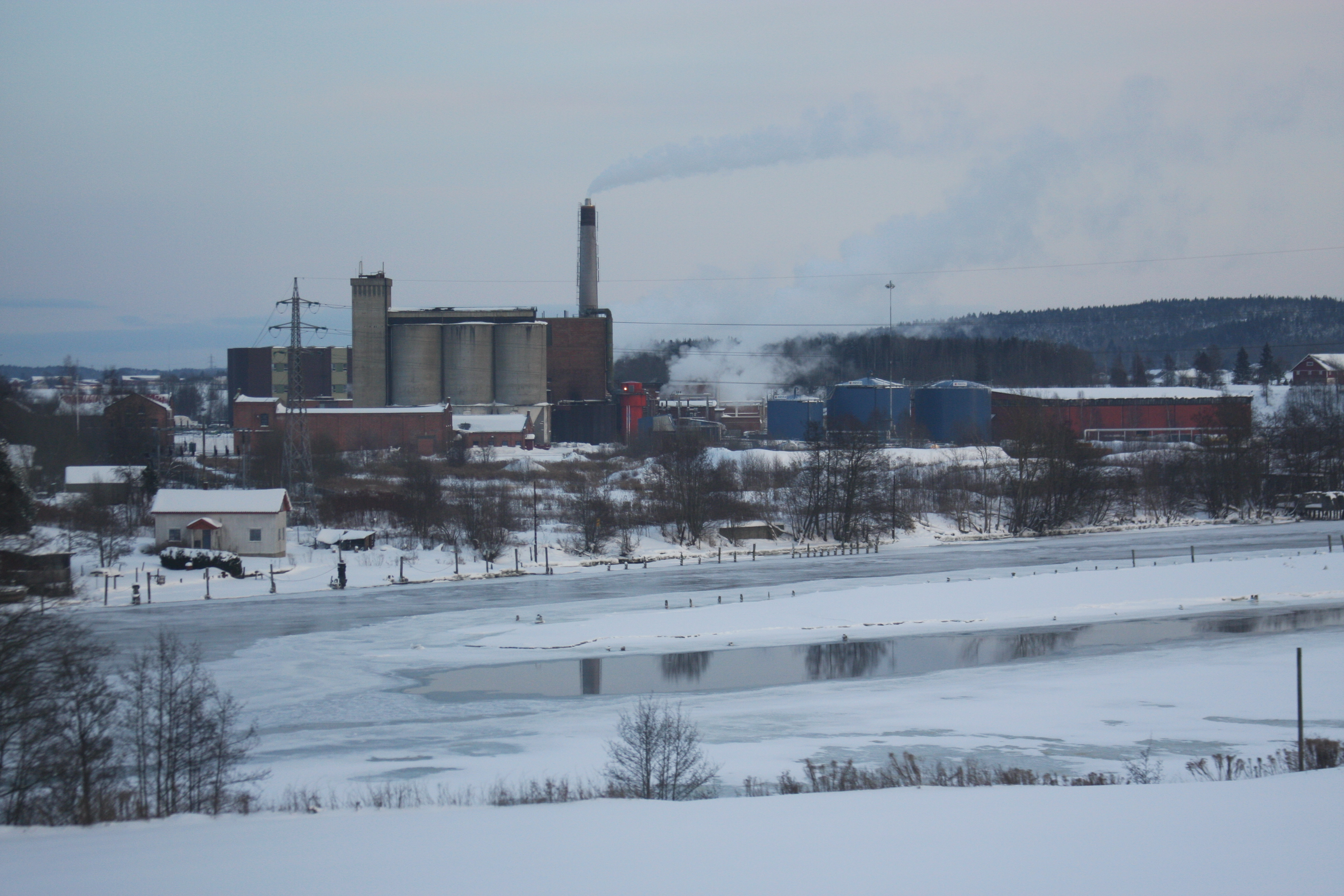 Nordic Paper's kraft paper factory at Greaaker, west of Sarpsborg (Norway).